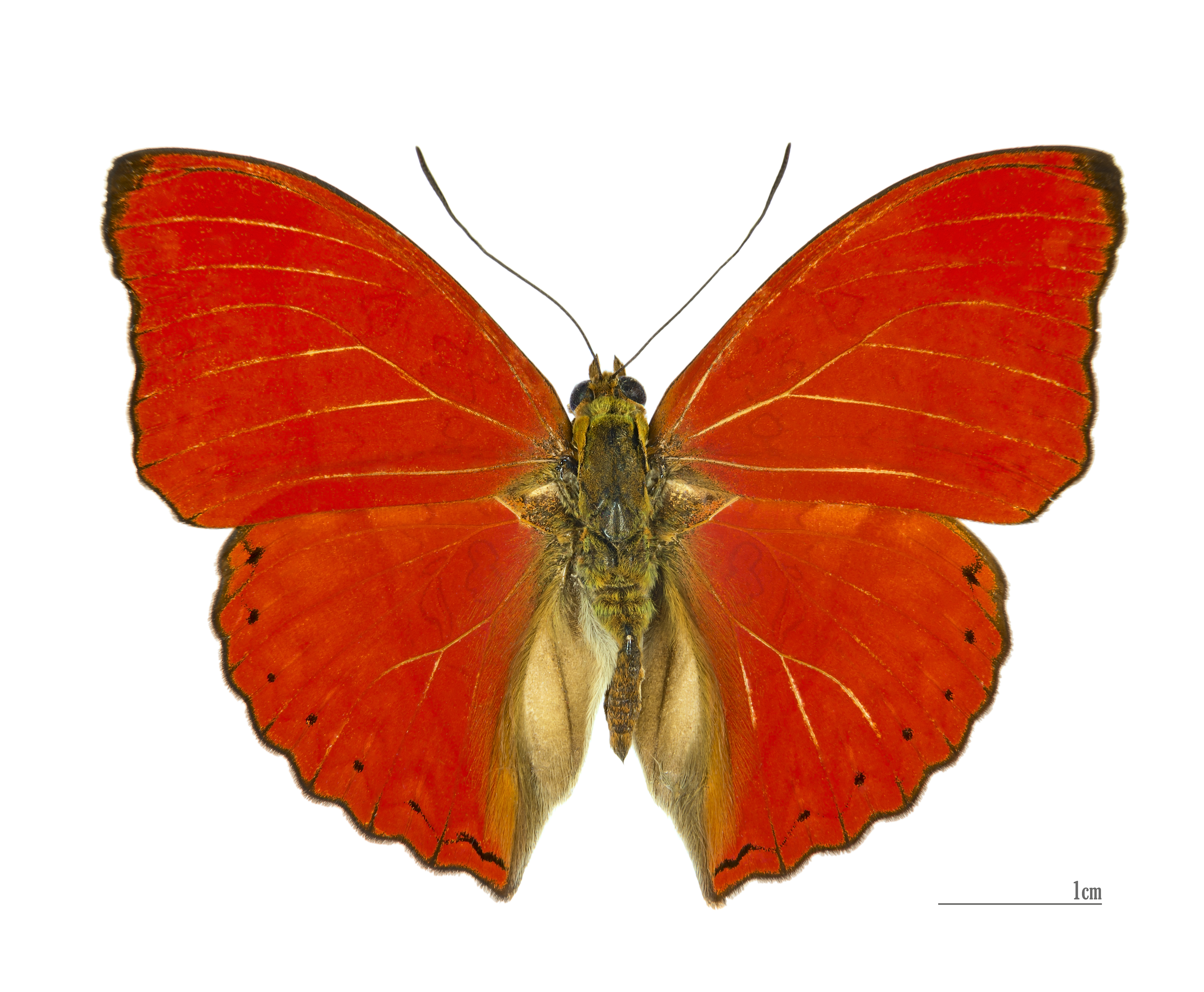 Cymothoe sangaris - Dorsal side